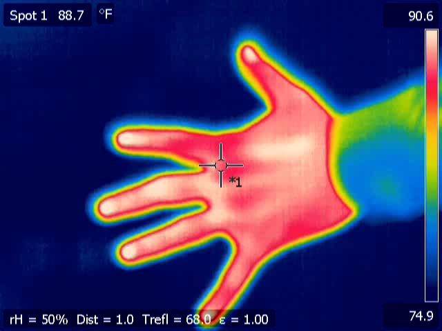 Infrared thermography (IRT) image of a hand comming out of a shirt sleve